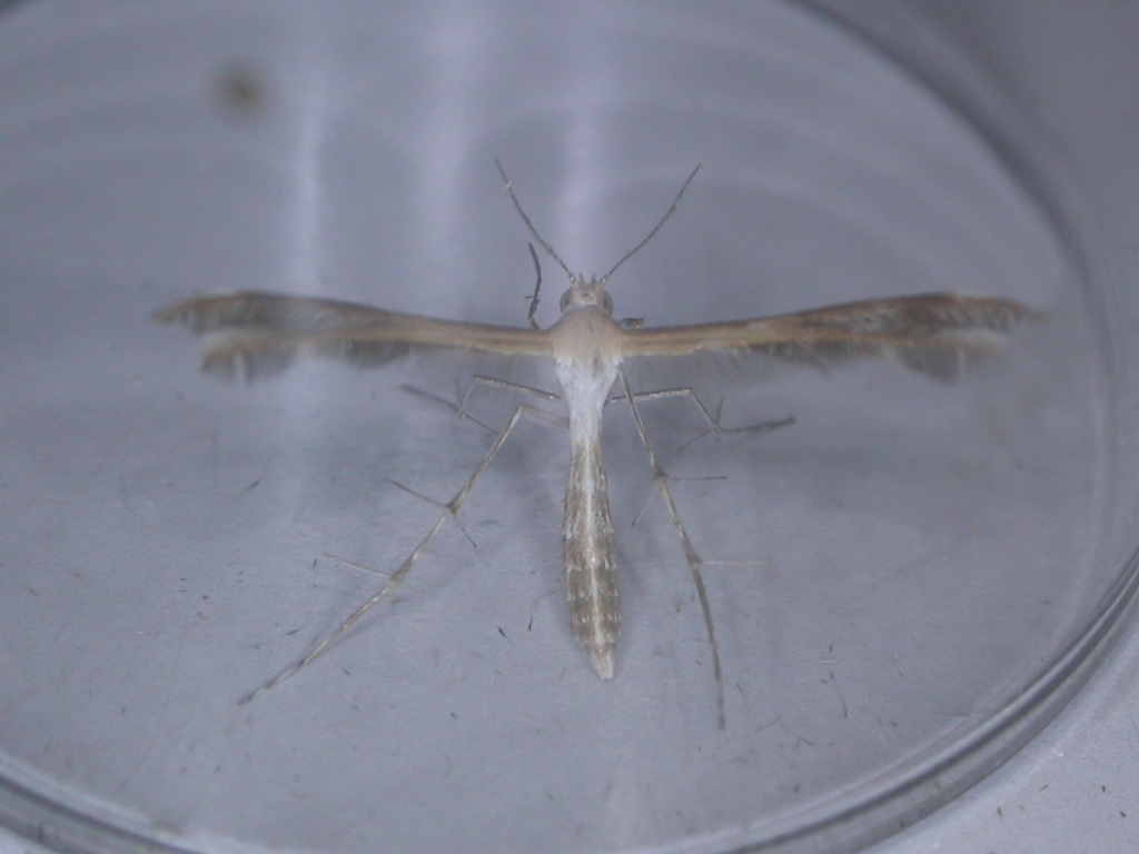 Megalorhipida leucodactyla